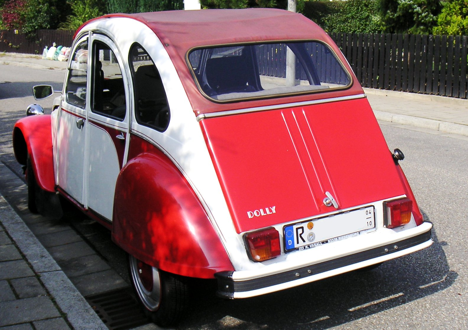 Citroën 2CV, back view.